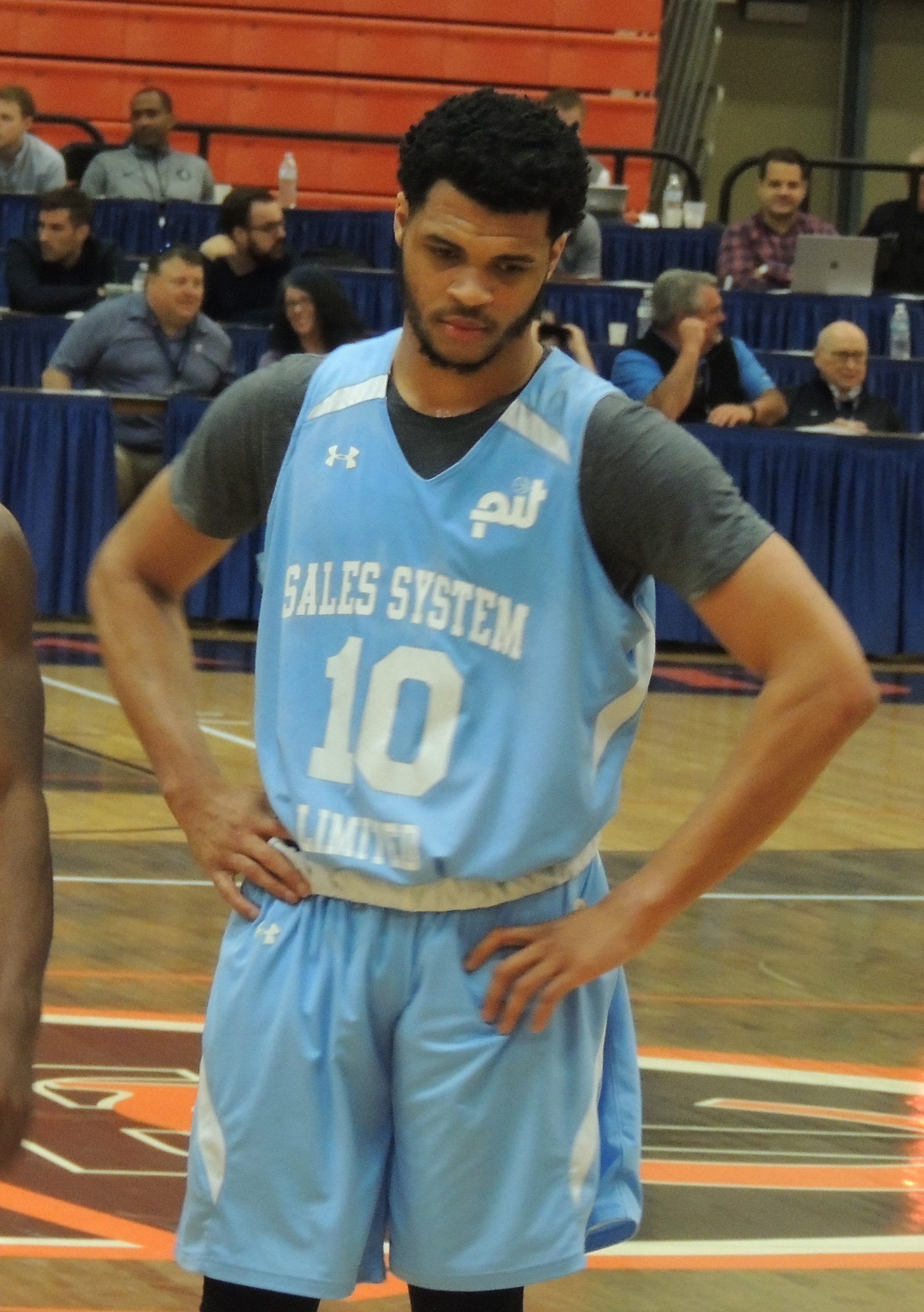 American basketball player Quinndary Weatherspoon of Mississippi State University at the 2019 Portsmouth Invitational Tournament.